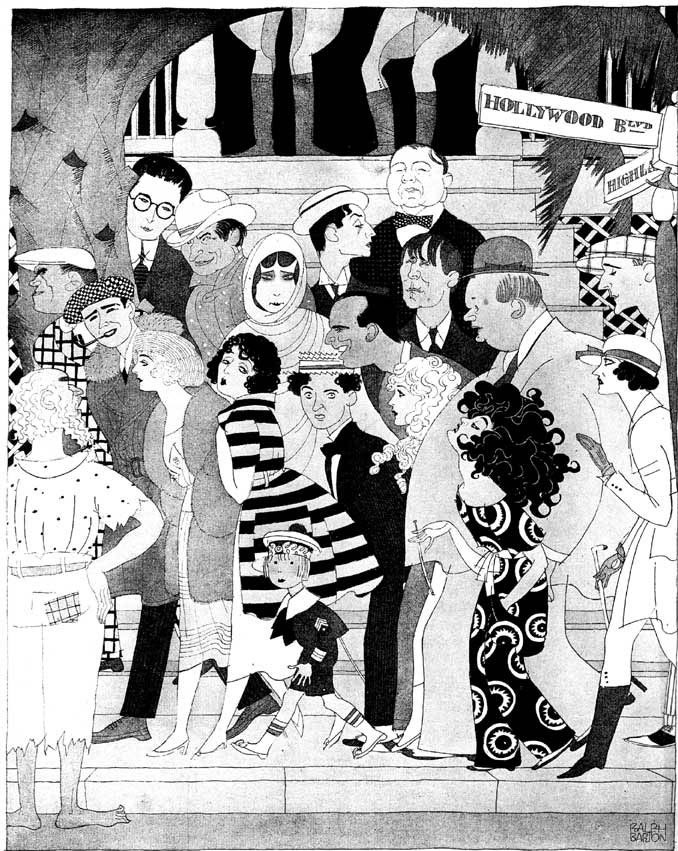 Ralph Barton sketch of Silent Movie stars. "When the Five O'Clock Whistle Blows in Hollywood" including Douglas Fairbanks, Buster Keaton, Bebe Daniels, Mary Pickford, Rupert Hughes, Harold Lloyd, Bill Hart, Wallace Reed and Gloria Swanson.